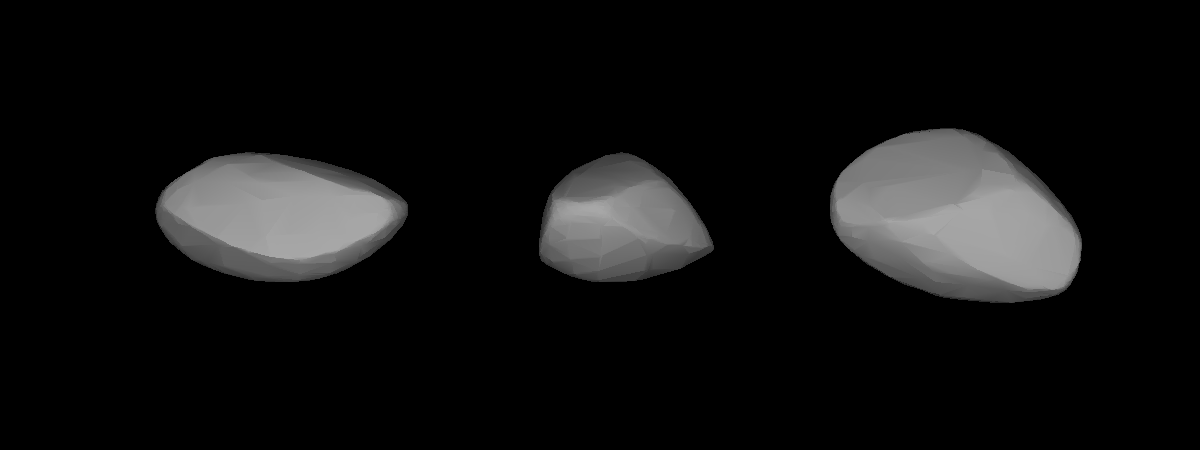 A three-dimensional model of 984 Gretia that was computed using light curve inversion techniques.